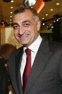 Mamuka Khazaradze